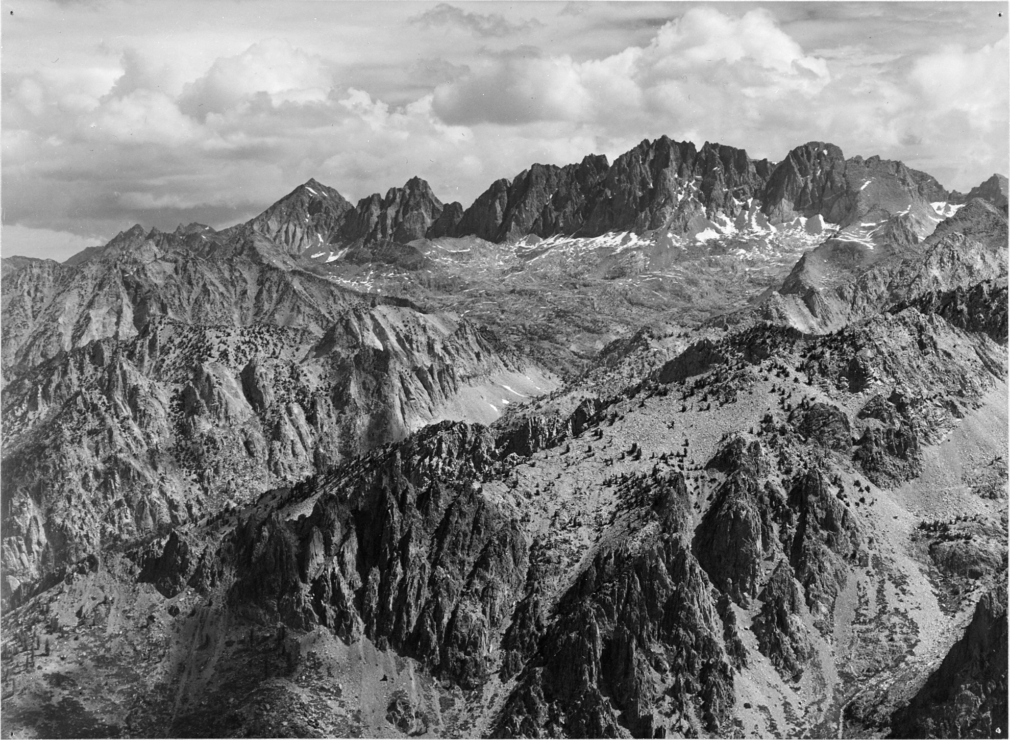 North Palisade, Sierra Nevada, California, USA from Windy Point (Kings Canyon National Park).